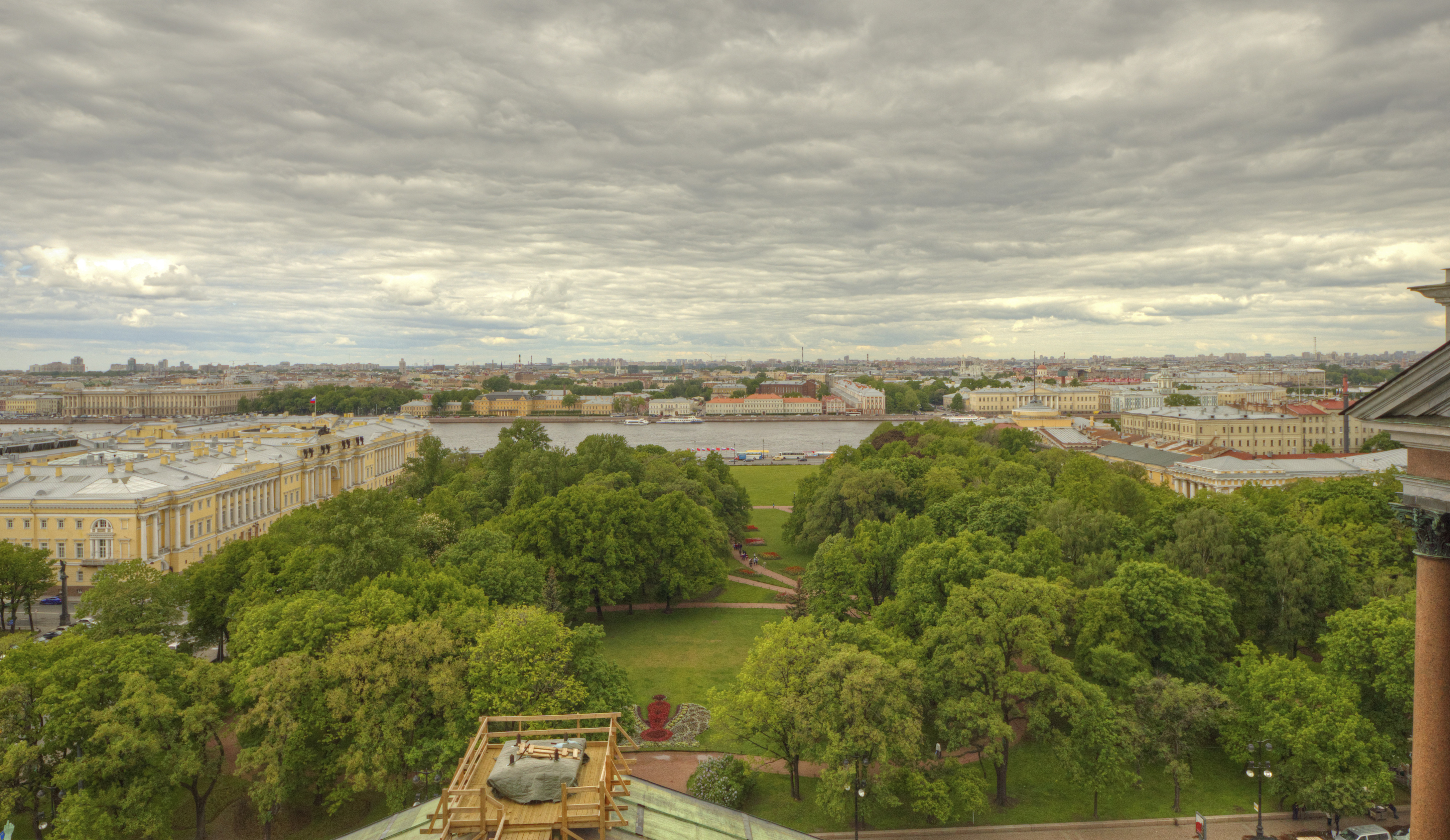 St. Petersburg, Russia. Views from the visitor's gallery at the Colonnade of the St. Isaac's Cathedral.